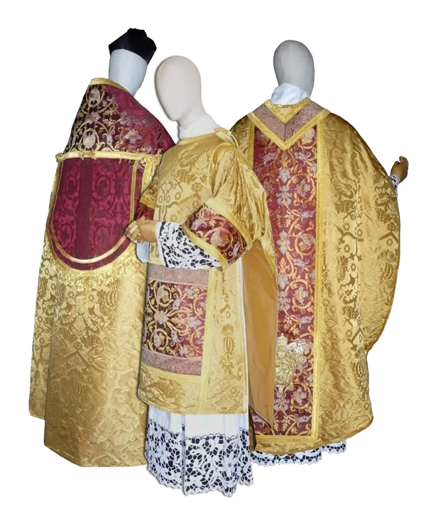 Renaissance chasuble in the style of Carlo Borromeo. Dalamtic in Roman style, Cope in Roman style (from right to left).